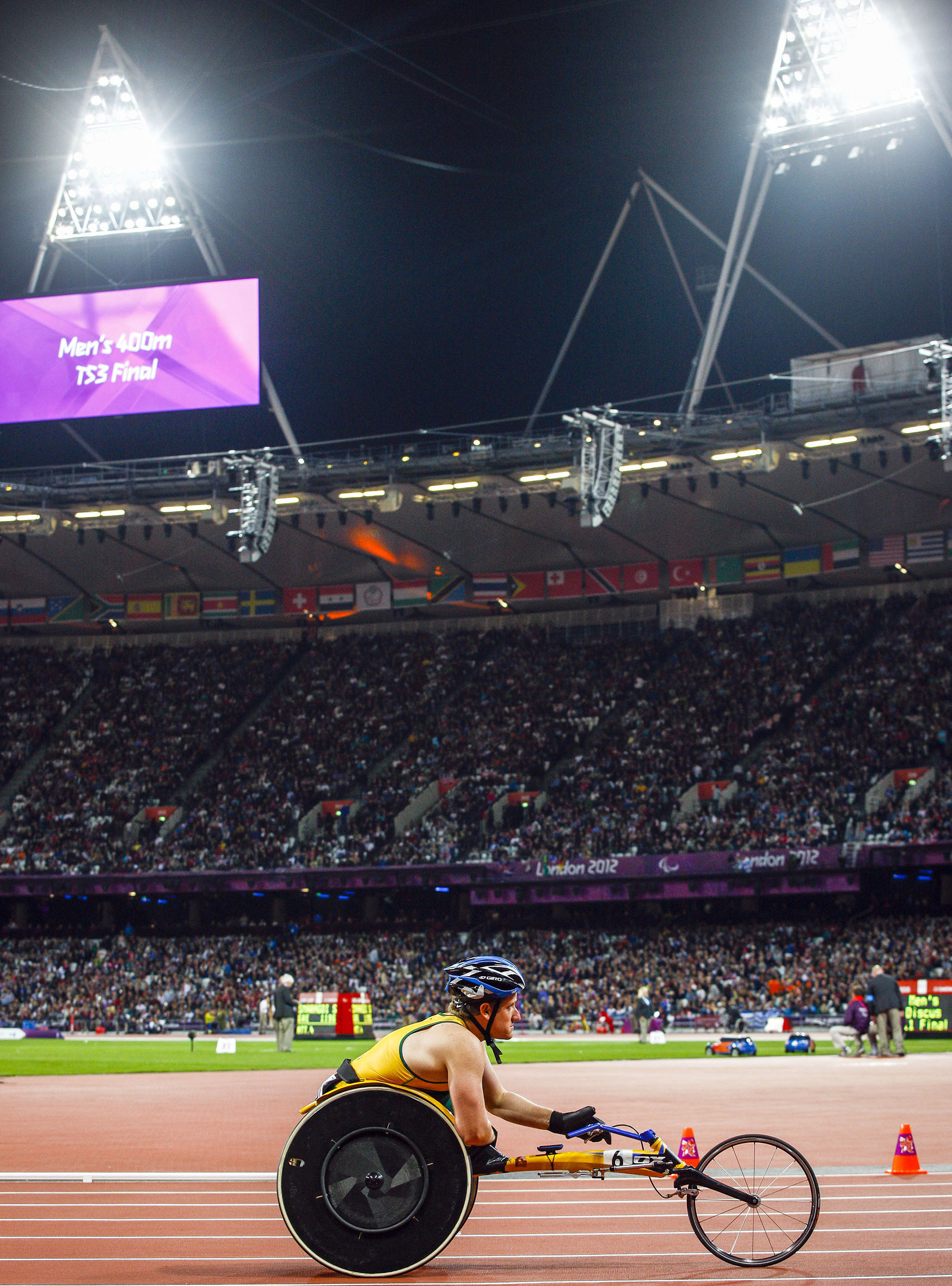 Photograph of Australian Paralympic team member Richard Colman at the 2012 Summer Paralympic Games in London